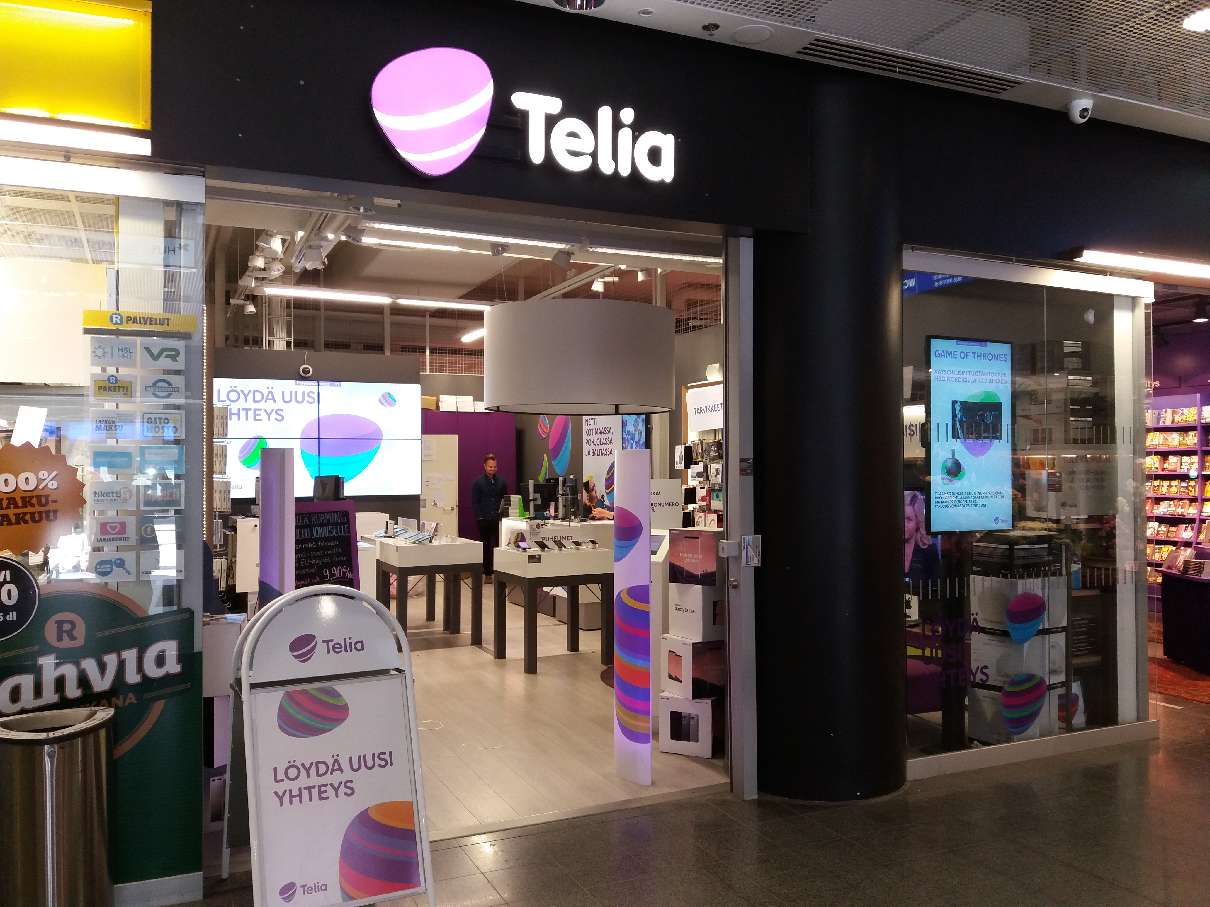 Telia Store in shopping mall Dixi, Tikkurila, Vantaa, Finland